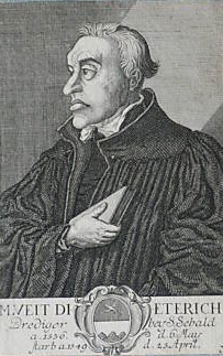 M. VEIT DIETERICH / Prediger bey S. Sebald..., ca. 15,0 x 9,8 cm